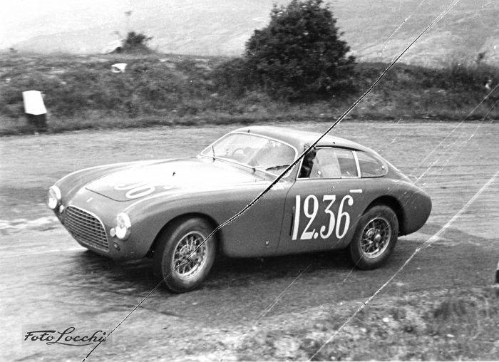 Ferrari at 1951 Coppa Toscana. Most likely, this is Franco Cornacchia and Del Carlo driving in the 1951 Ferrari 212 MM Vignale Berlinetta s/n 0070M at 1951 Coppa Toscana on 3 June.[1] They won their GT class.[2] Note: The identity is based on visual likeness to 0070M, but 0082A is very similar, but may have left Italy at the time of this race (sold to Portugallie).